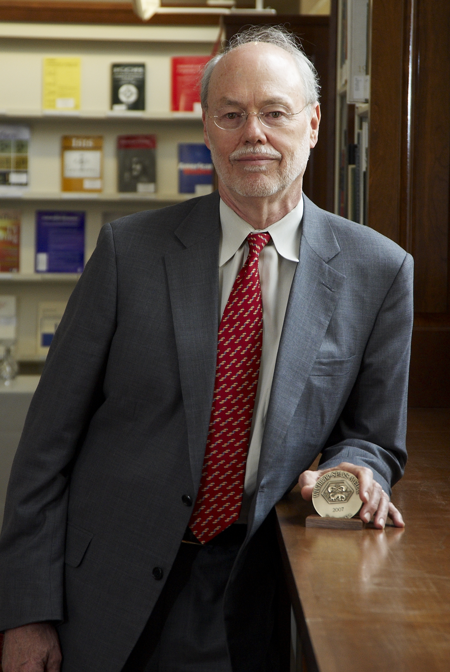 Photograph of Phillip Allen Sharp, chemist and recipient of the 2007 Winthrop-Sears Medal, presented 9 May 2007, at Heritage Day, Chemical Heritage Foundation, Philadelphia, PA, USA.